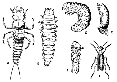 Metamorphosis of Epicauta vittata